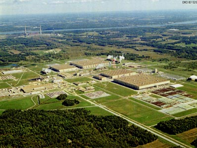 The Paducah Gaseous Diffusion Plant, located in Paducah, Kentucky, is one of three plants built by the United States to enrich uranium. All three plants were based on an enrichment technology called "gaseous diffusion."